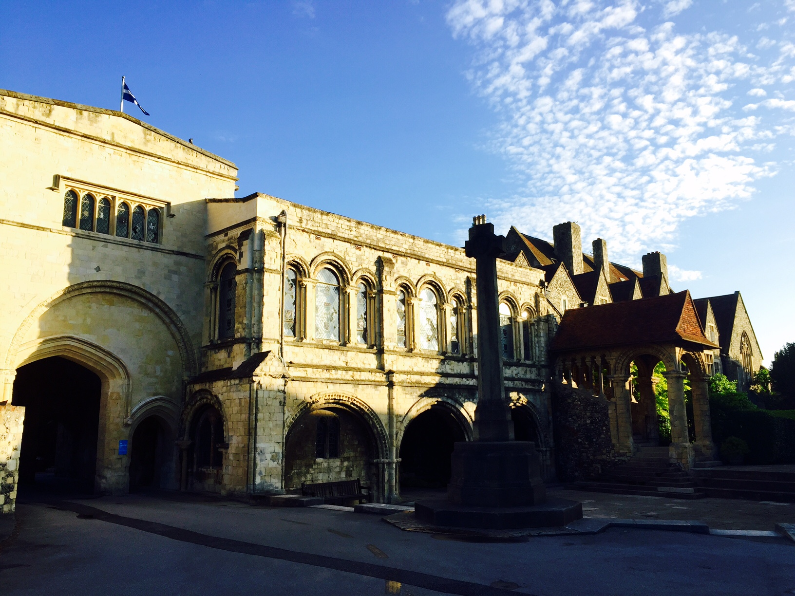 View of the Schoolhouse and The Norman Staircase. The staircase is one of the most painted, photographed and admired sites in Canterbury. As its name suggests it dates back to the 12th century. For formal occasions the School traditionally gathered here. Archbishops of Canterbury addressed the School from the Staircase during Visitations. King George VI, accompanied by Queen Elizabeth and Princess Elizabeth, presented the School’s Royal Charter to the Dean on 11 July 1946.